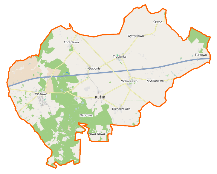 Map of Gmina Kuślin, Poland This map of Kuślin (gmina) was created from OpenStreetMap project data, collected by the community. This map may be incomplete, and may contain errors. Don't rely solely on it for navigation. Border coordinates52.431316.2007←↕→16.450752.3085